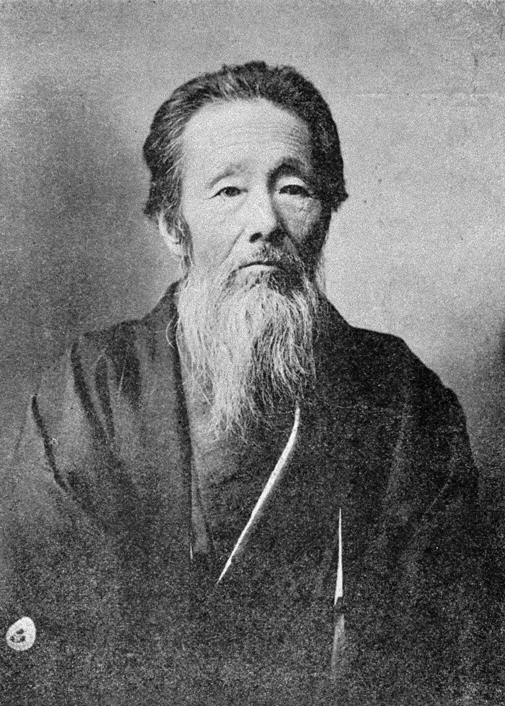 Portrait of Sawabe Takuma (沢辺琢磨, 1834 – 1913)